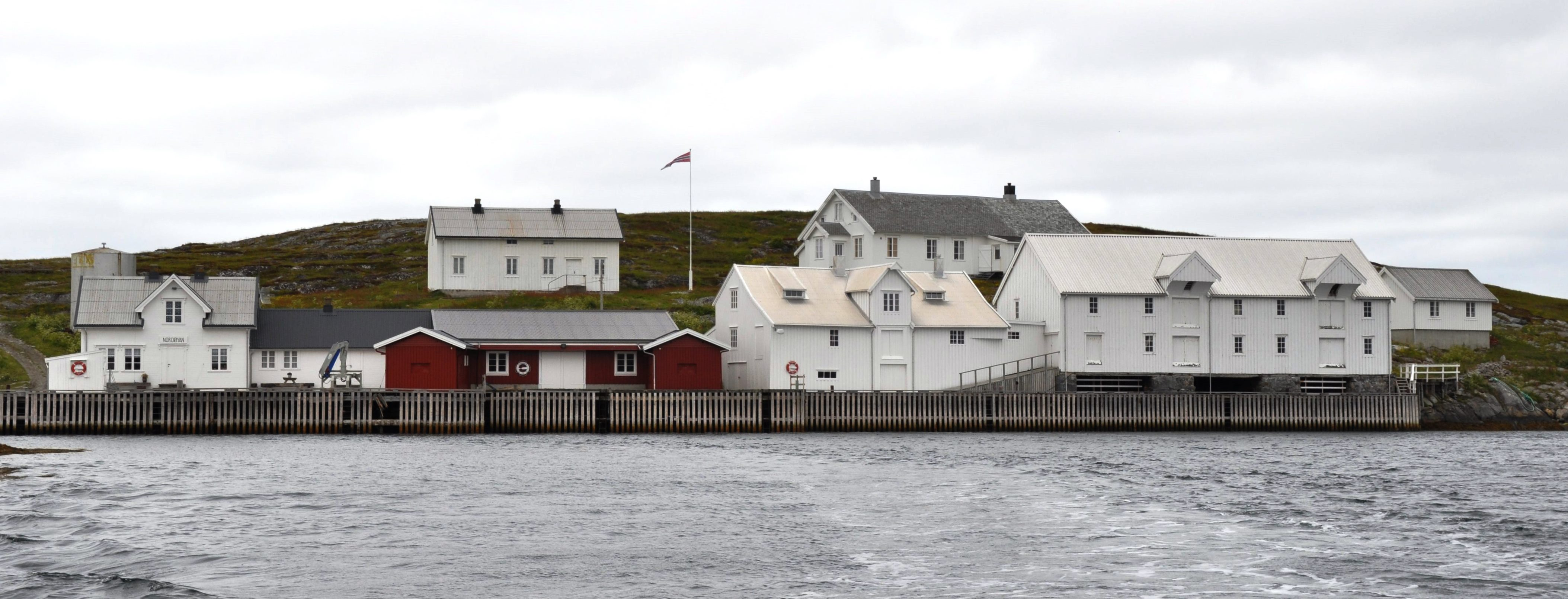 Remaining buildings in fishing village and archipelago Nordøyan, Vikna, Nord-Trøndelag, Norway